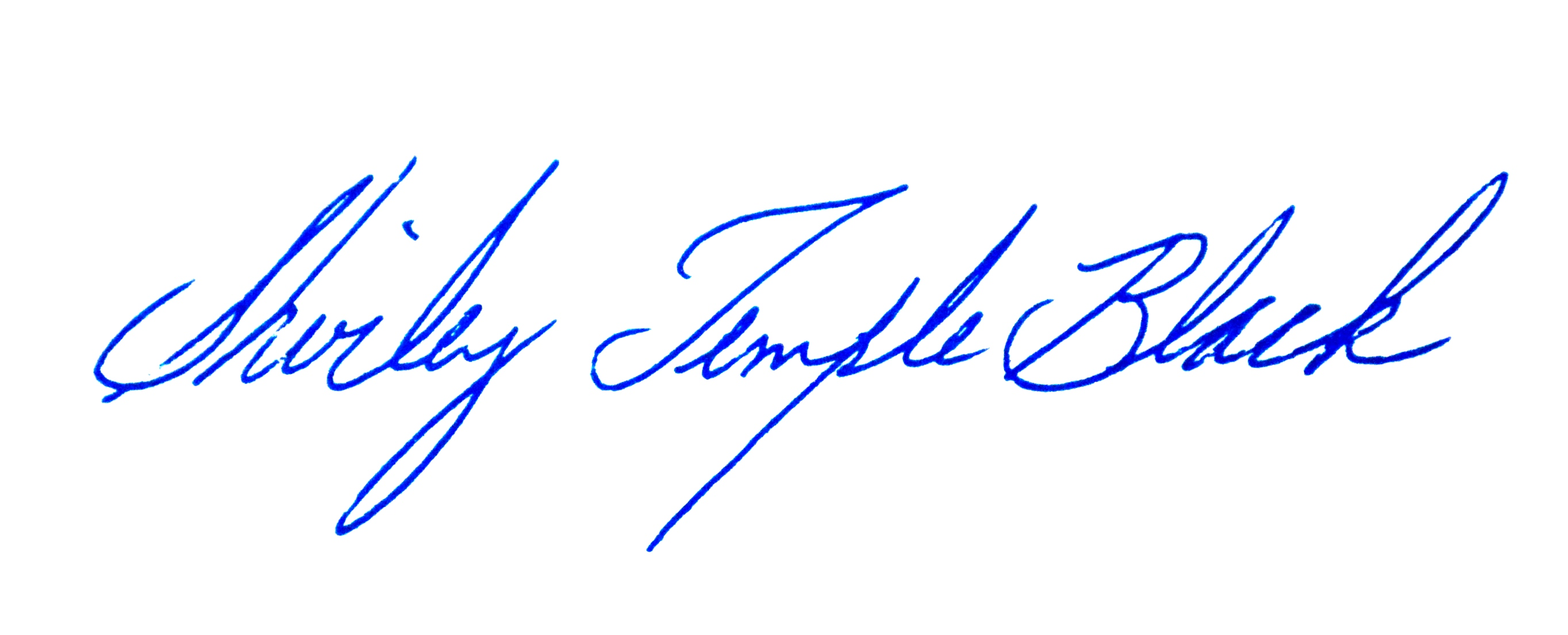 Signature of Shirley Temple Black, American film actress